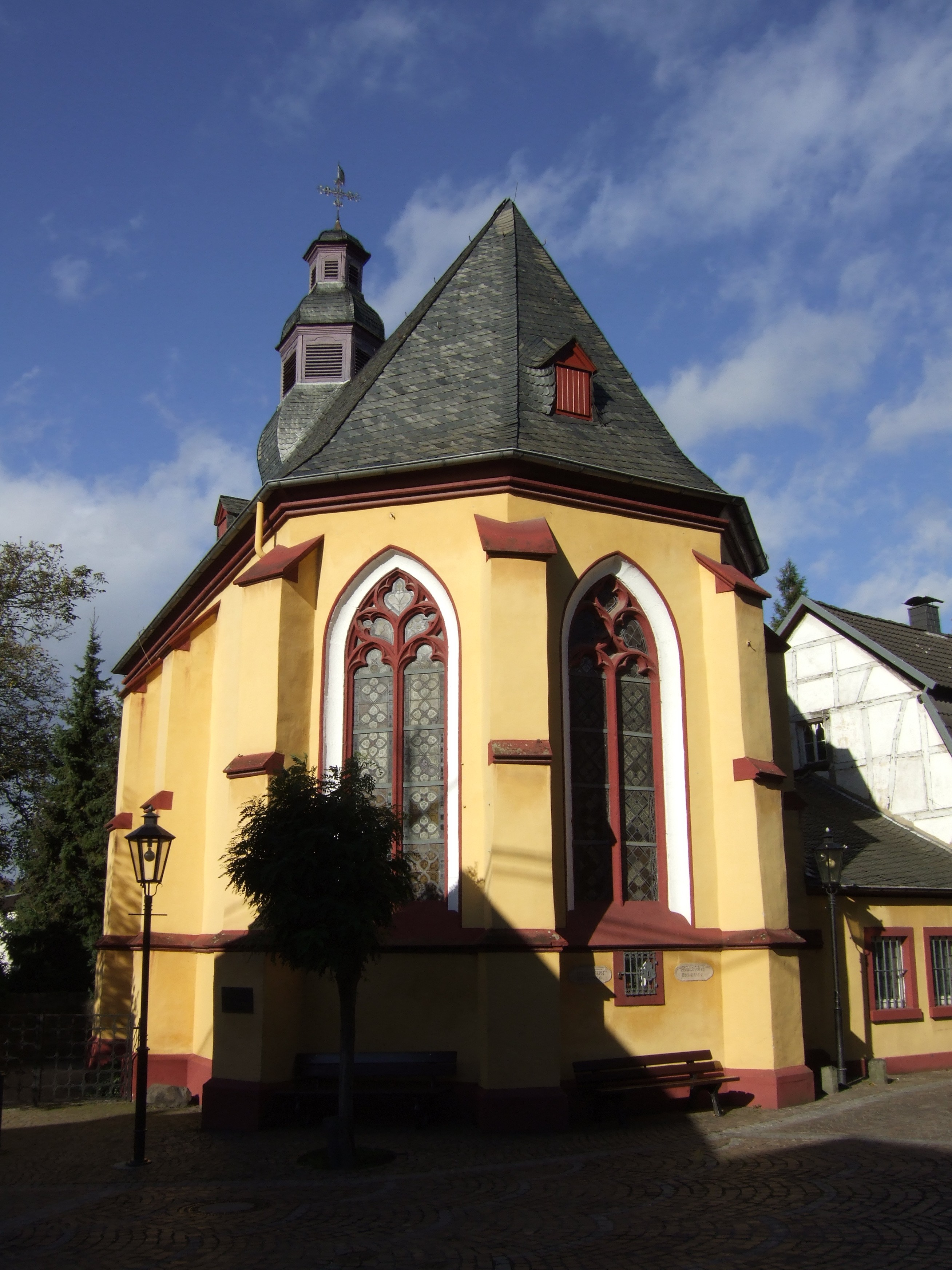 Chapel in Unkel-Scheuren